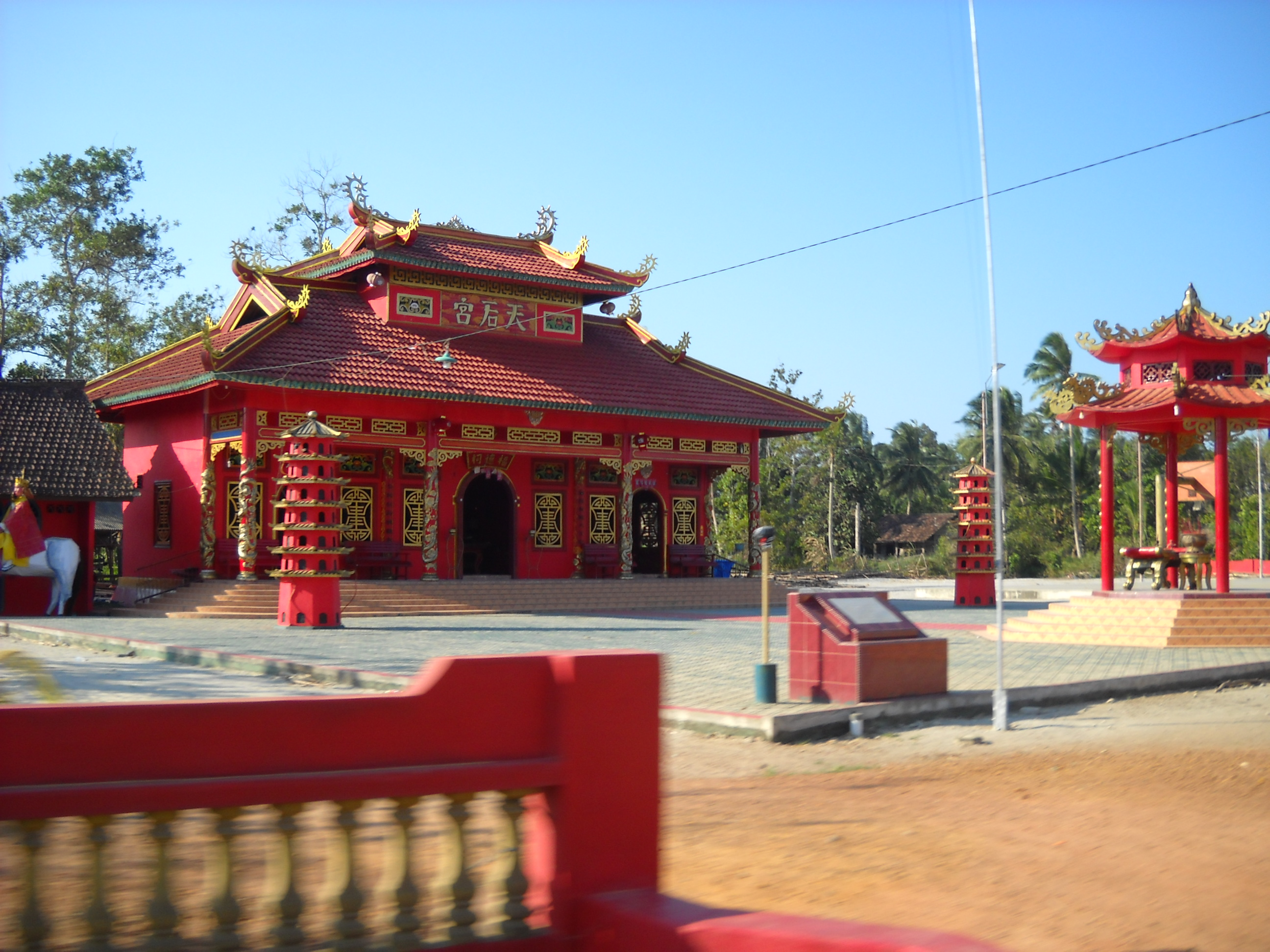 A Buddhist temple in Air Duren Village (Po Hin), Bangka County, Bangka Island